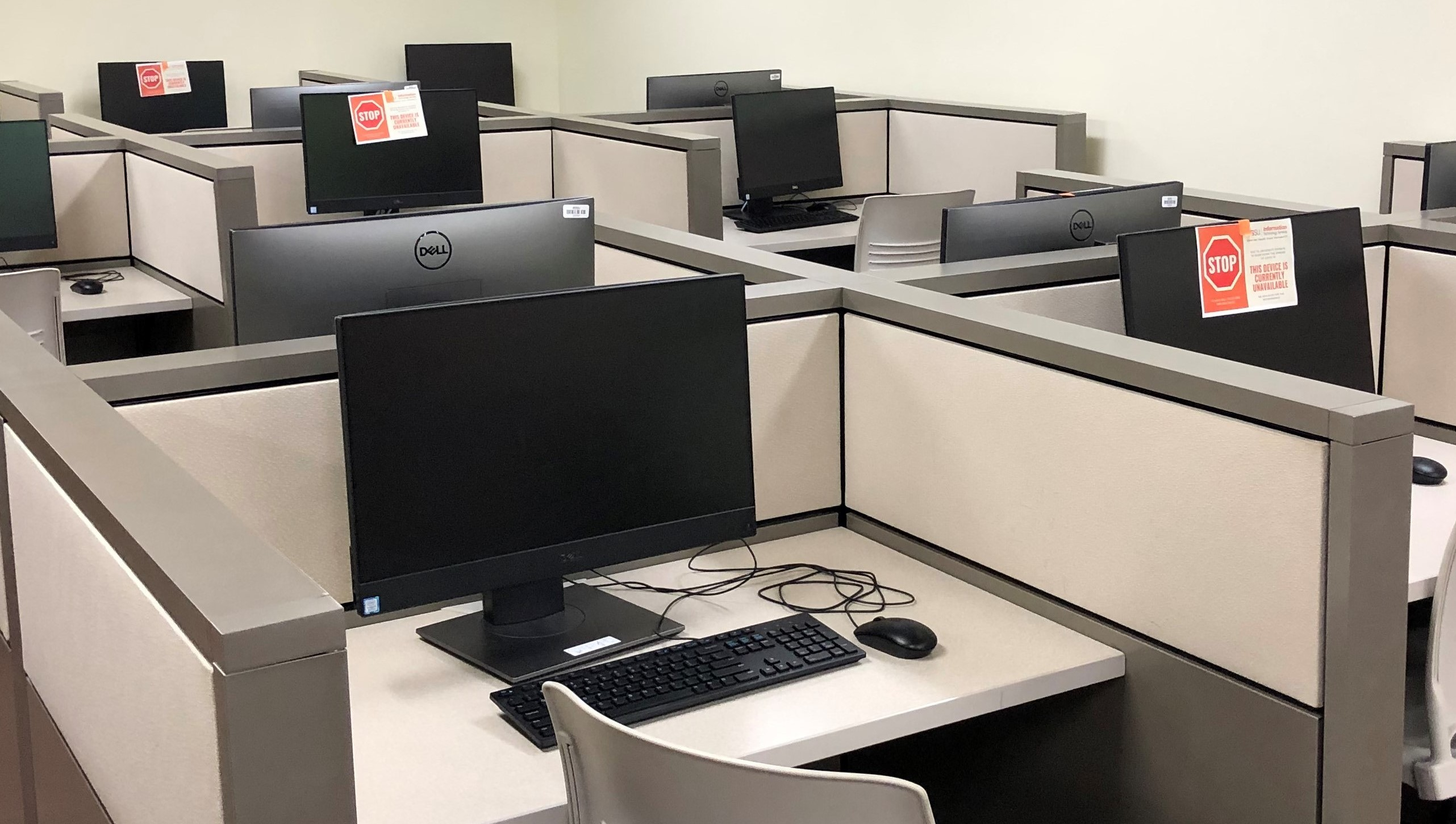 Social Distancing in a Computer Lab at Bowling Green State University. Every other computer has been unplugged and shut down to stop people from sitting in close proximity. This part of the lab would normally be very busy during the lead up to spring break, but most students opted for seats closer to the exit, hand sanitizer, disinfecting wipes, etc.